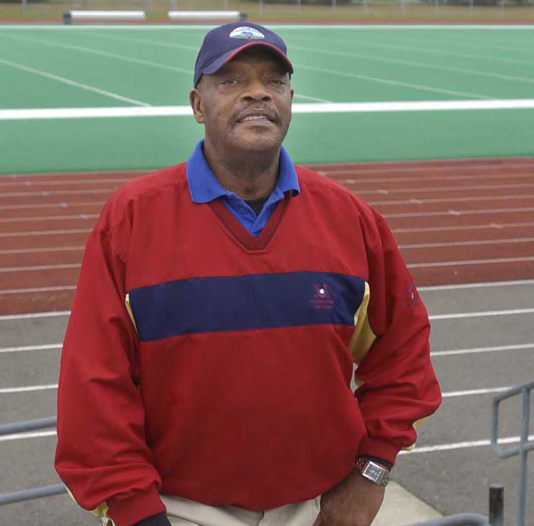 Otis Sistrunk, U.S. Army civilian employee and former National Football League player